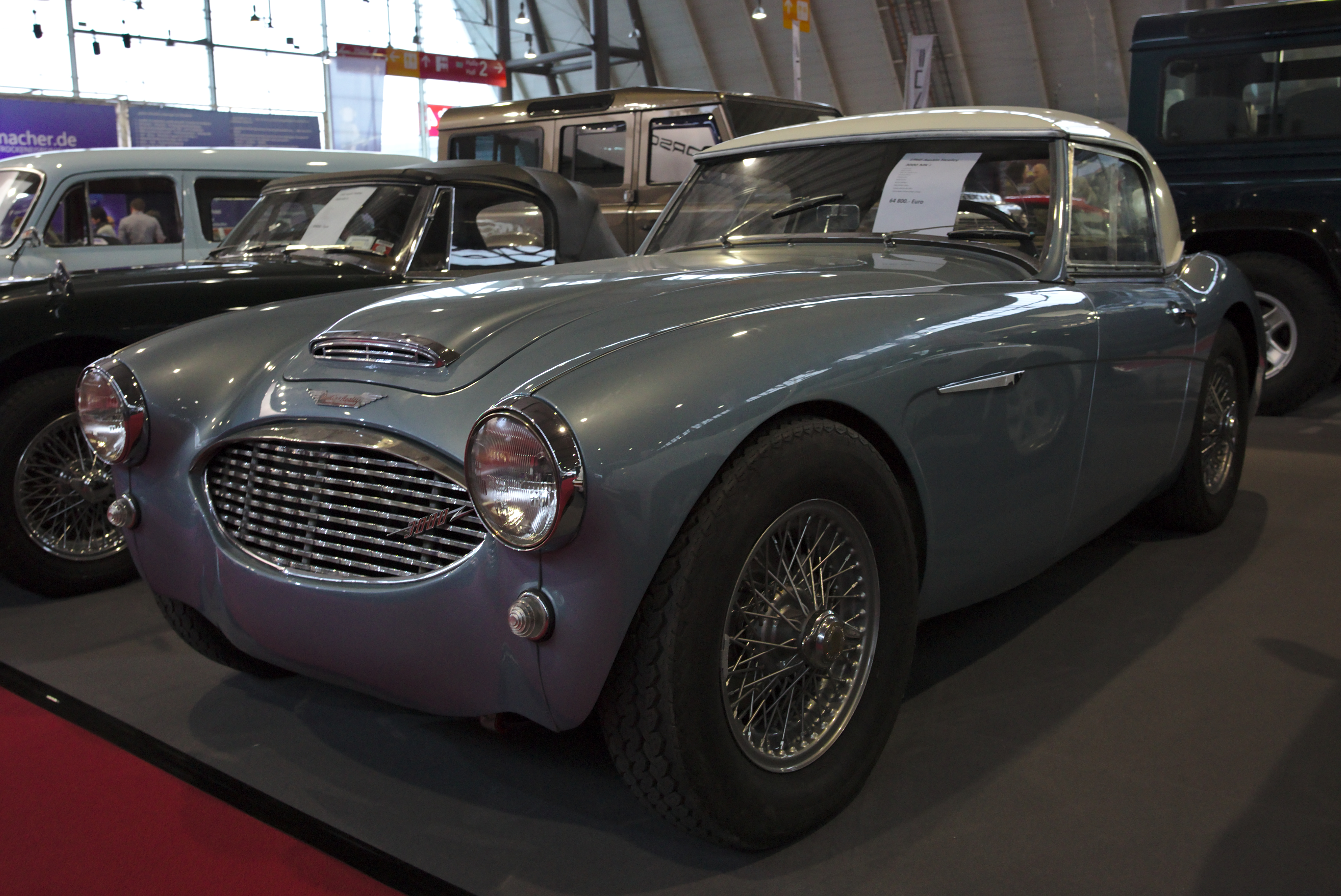 Austin Healey 3000 MK I at Retro Classics 2018